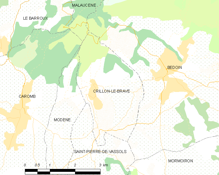 Map of French municipality Crillon-le-Brave